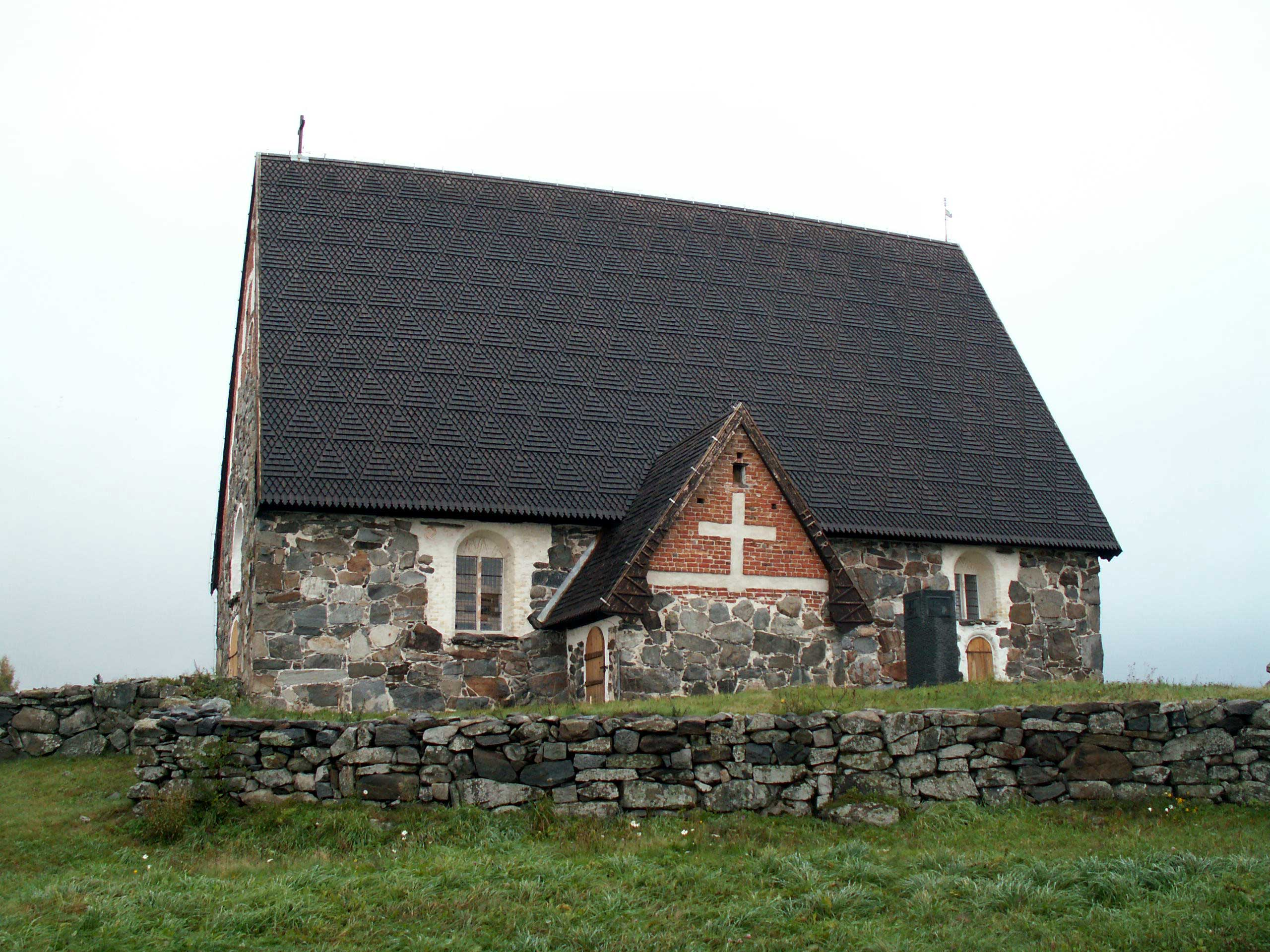 Old church of Tyrvää in Vammala, Finland. Built in 1510.